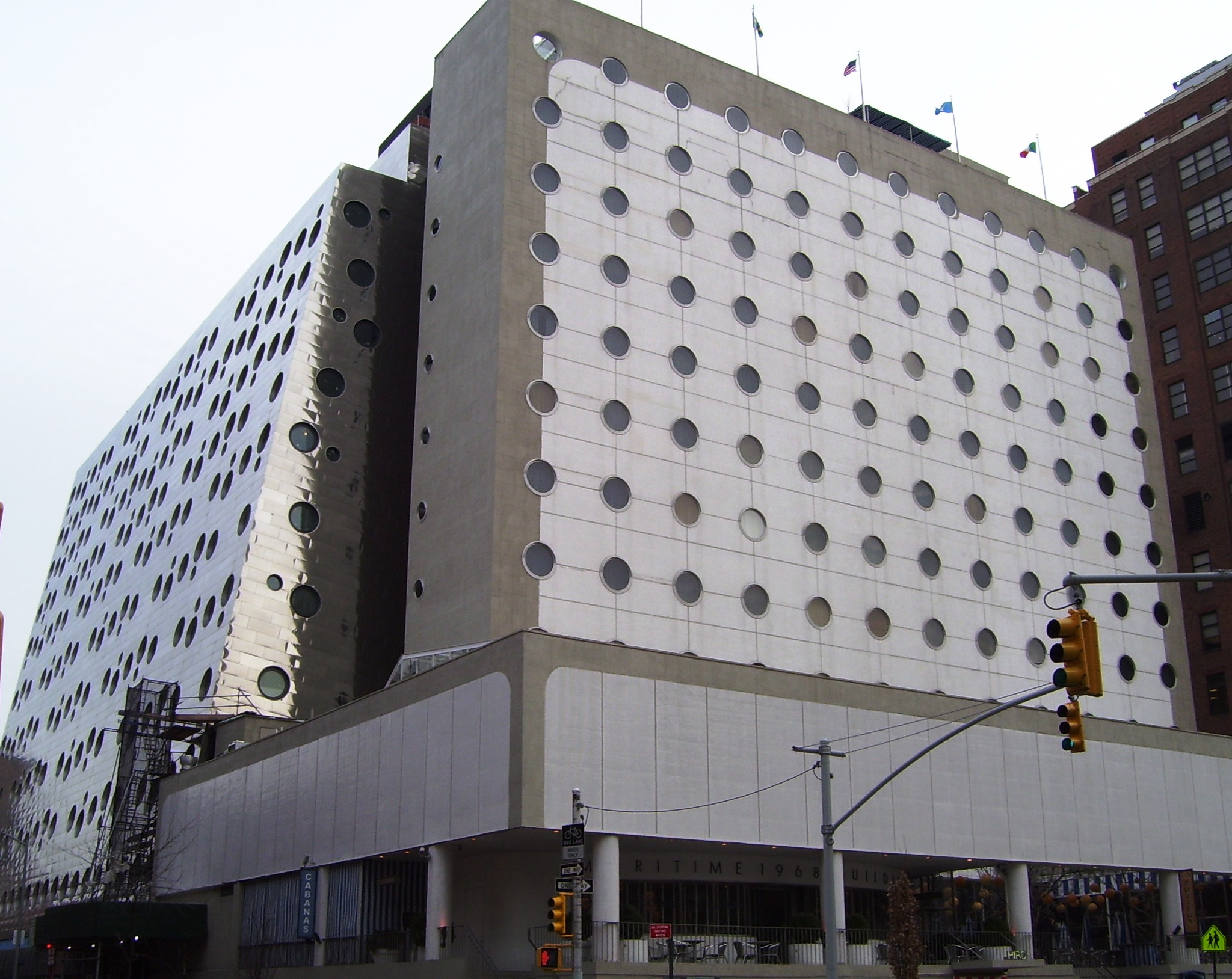 The Ninth Avenue facade of the Maritime Hotel and the 17th Street facade of the Dream Downtown Hotel